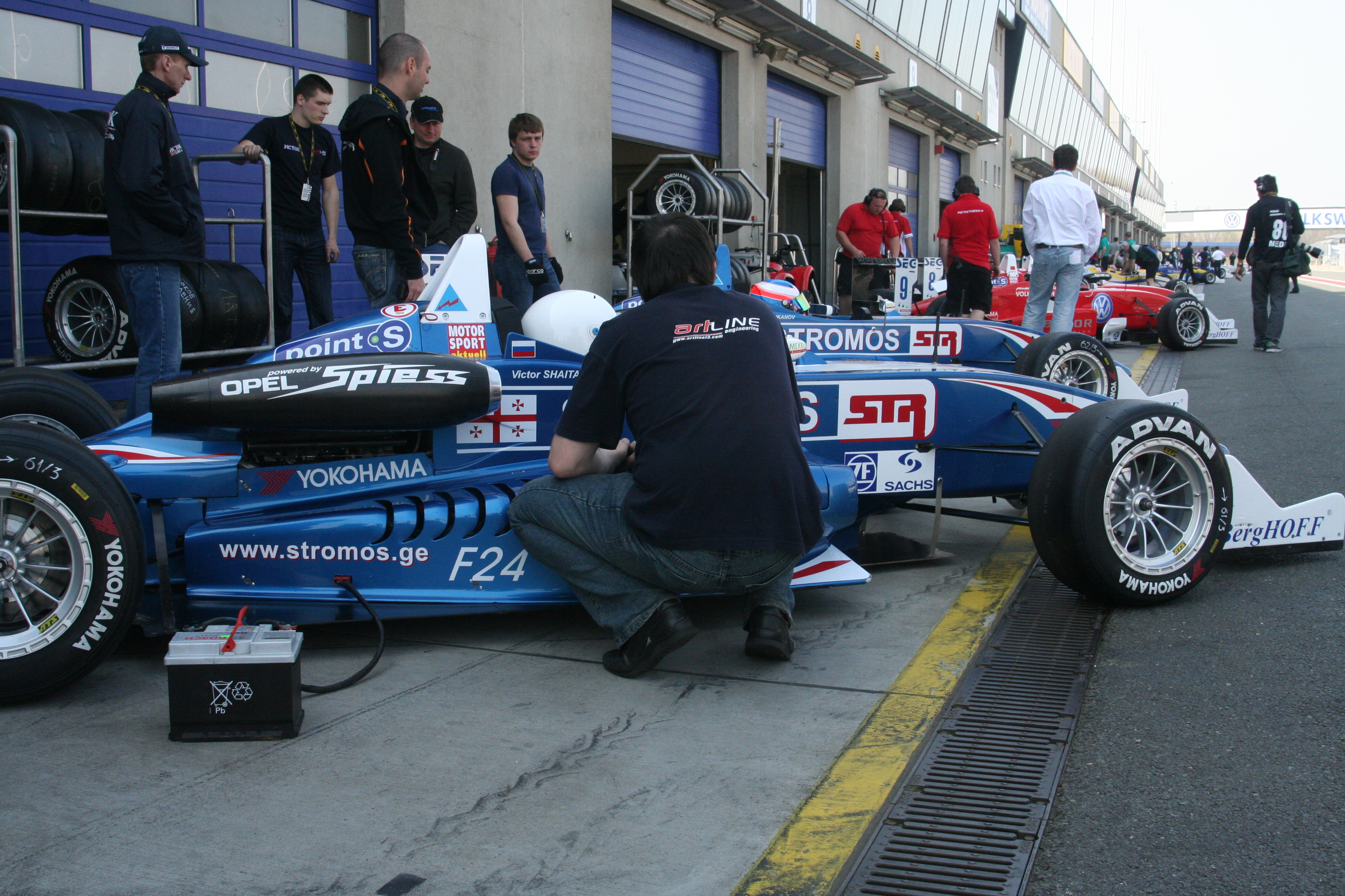 ArtLine team at the pitlane of Oschersleben Arena.